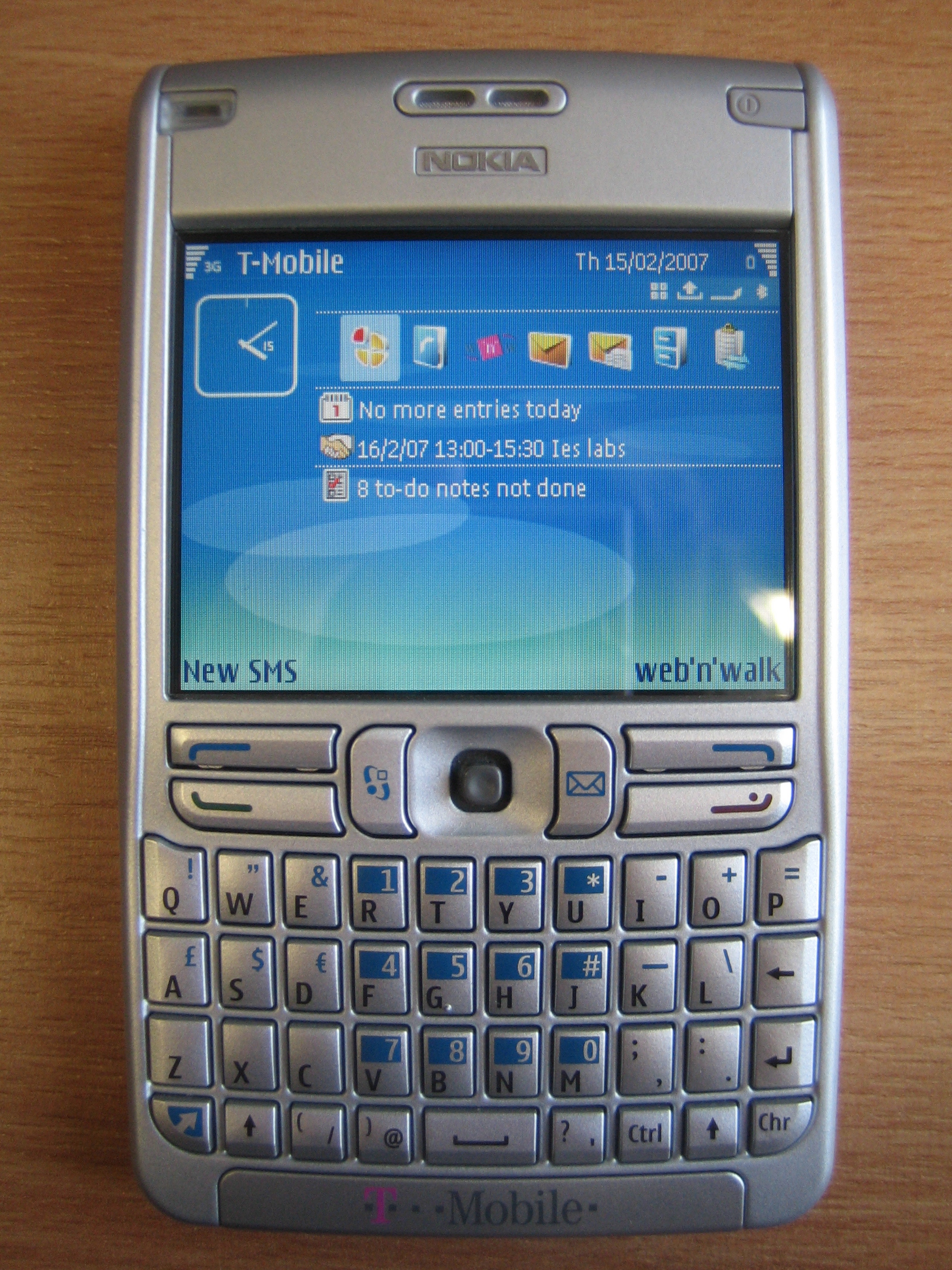 Photo of a Nokia E61. Taken by the author on 2007-02-15.